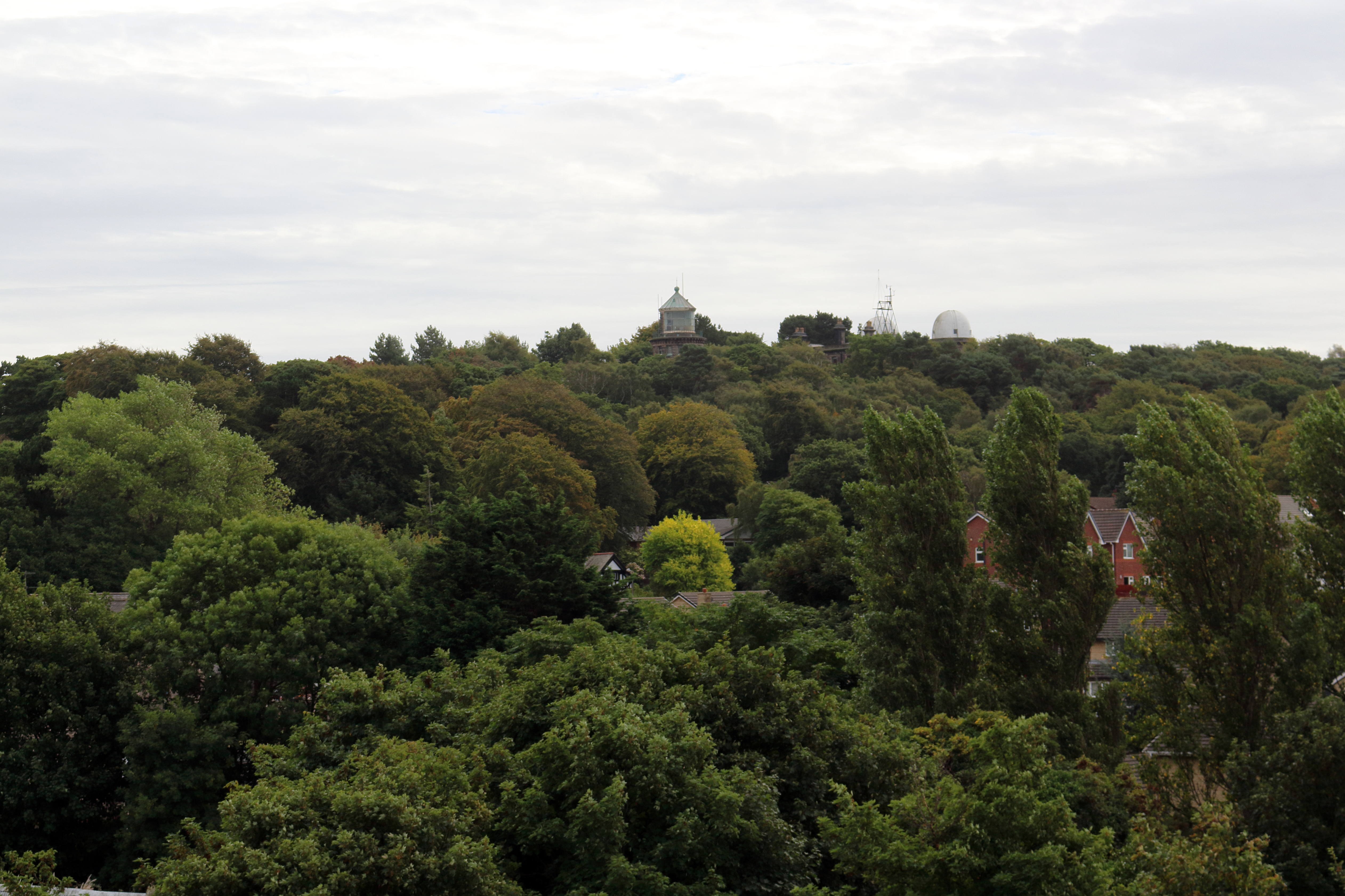 View southeast from St Oswald's church tower over Bidston Hill.